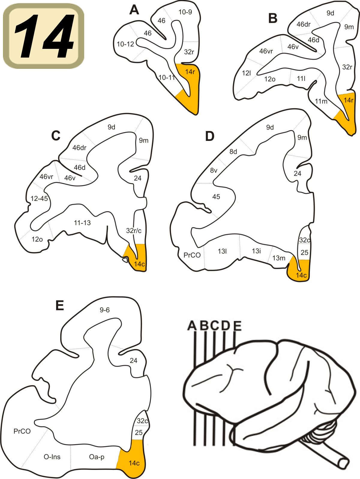 Coronal sections showing areal borders. Drawings of coronal sections through five different rostrocaudal levels of Cebus left hemisphere, showing areal borders. Brodmann area 14 in prefrontal cortex of Cebus depicted.